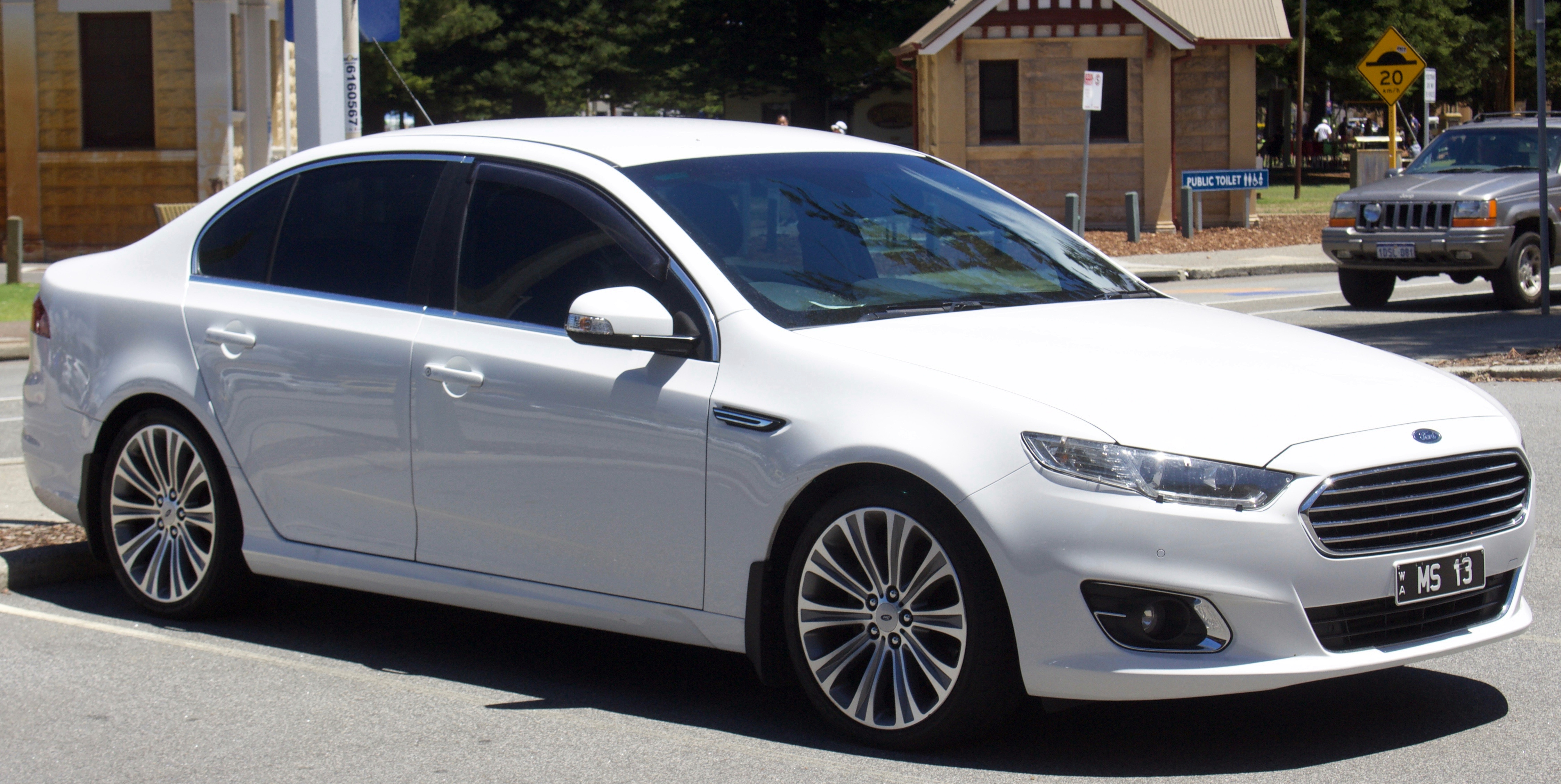 2015 Ford Falcon (FG X) G6E Turbo sedan. Photographed in Fremantle, Western Australia, Australia.